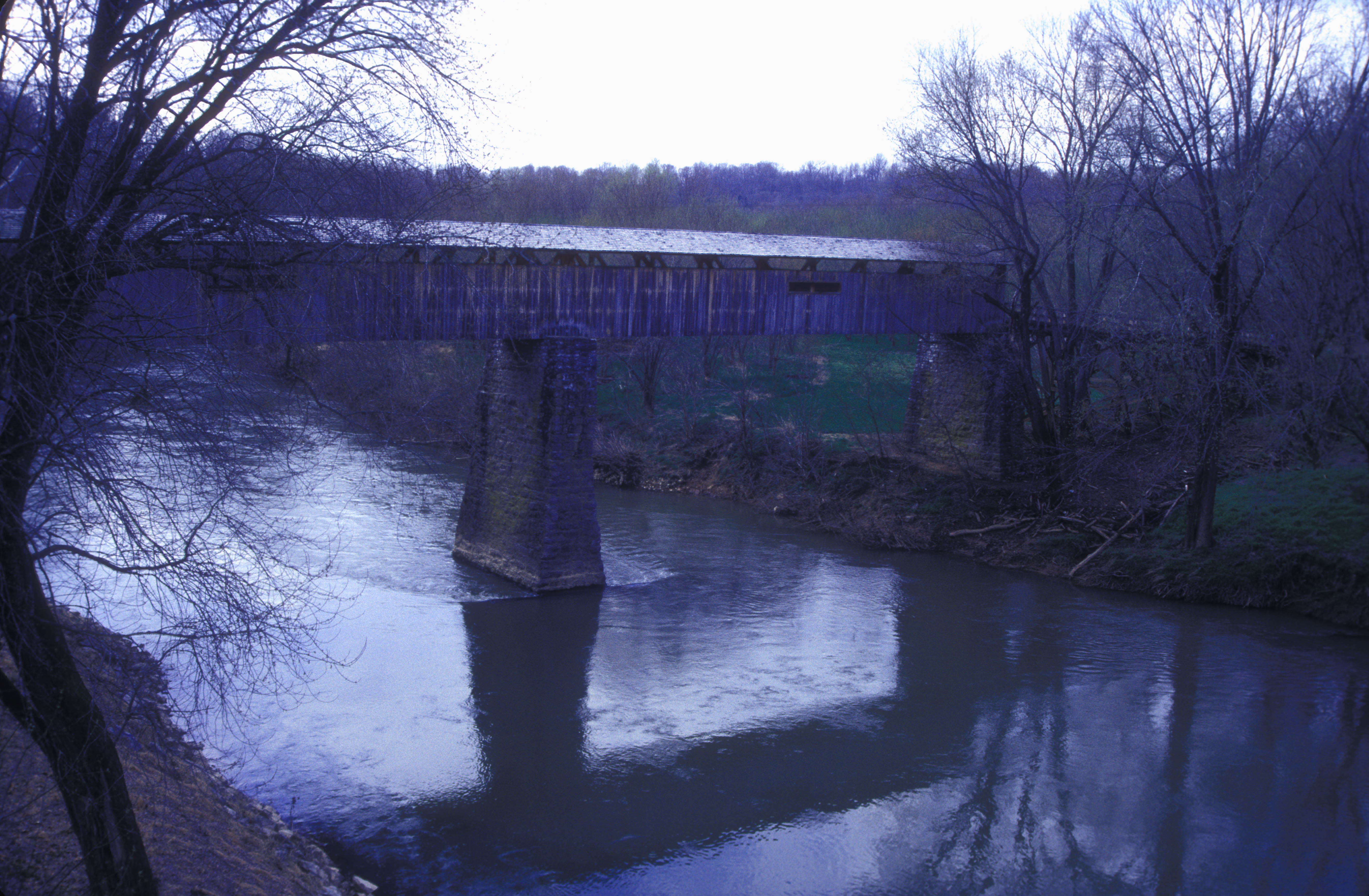 THIS IS THE COVERED BRIDGE WHICH ONCE CARRIED THE ROYAL ROAD OVER THE RED RIVER IN PORT ROYAL STATE PARK. THIS ROAD SERVED AS A PORTION OF THE TRAIL OF TEARS ALTHOUGH THIS BRIDGE REPLACED AN EARLIER BRIDGE USED NY THE INDIANS ON THE TRAIL. THIS BRIDGE HAS NOW BEEN DEMOLISHED NOW AND ONLY THE PIERS REMAIN.